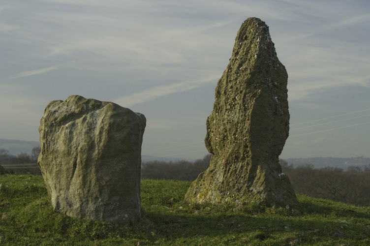 Heston Brake Neolithic burial chamber (Portskewett)